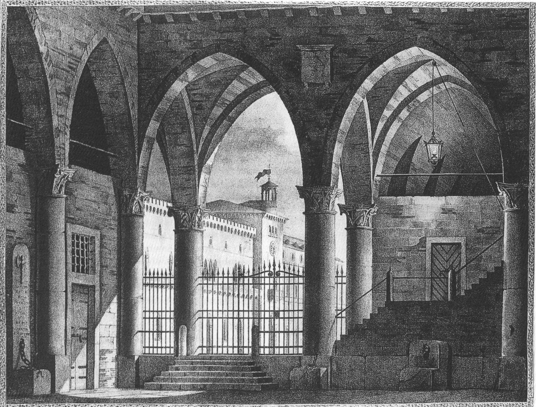 Rossini - Tancredi - 2. acte 2. scene - Pasquala Canna - stage design draft - Naples 1824 or 1827